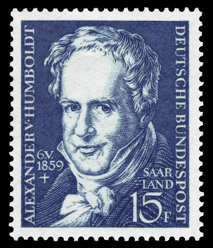 100th day of death of Alexander von Humboldt (1769-1859) Graphics by Kern Ausgabepreis: 15 Saar-Franken First Day of Issue / Erstausgabetag: 6. Mai 1959 Michel-Katalog-Nr: 448 (Saarland)